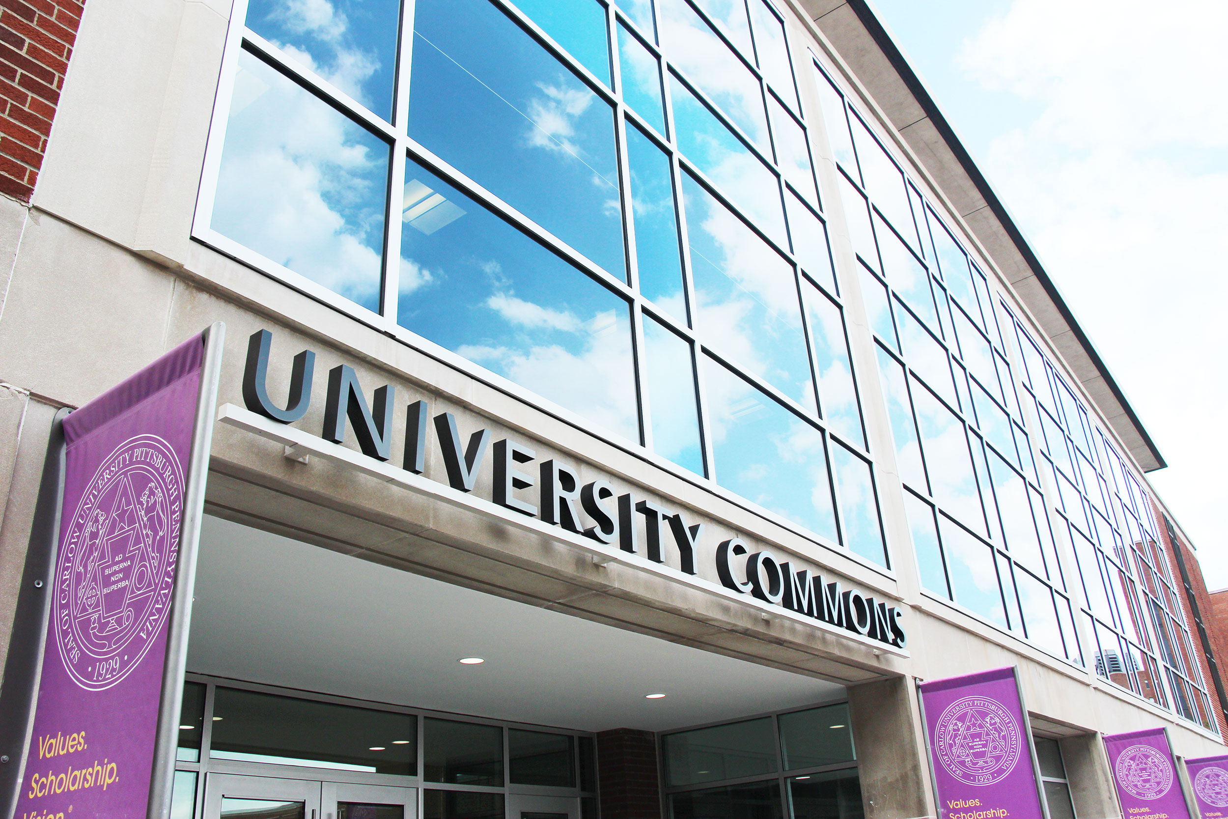 Carlow University student commons building. Newly renovated in 2015. Home to the Campus Library.